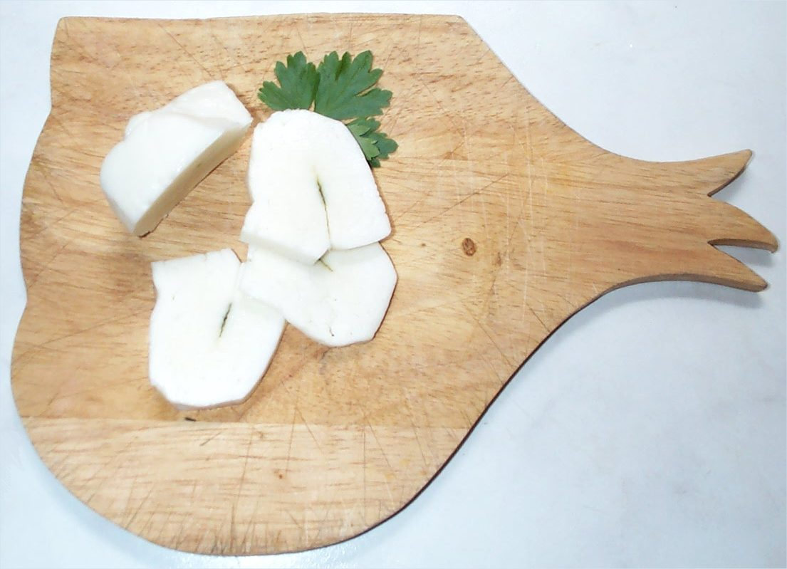 Fresh sliced Halloumi cheese. The strip in the middle contains whole leaves of mint.